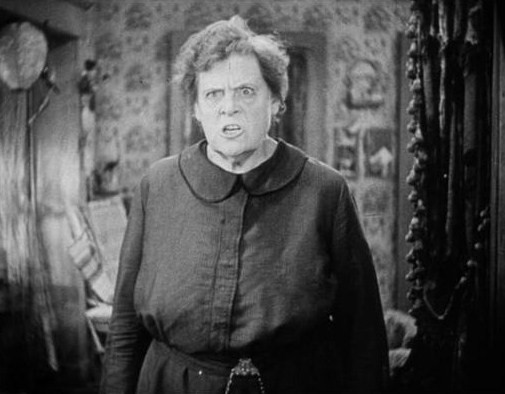 Frame from the public domain trailer for MGM's 1930 film Min and Bill showing an angry Marie Dressler